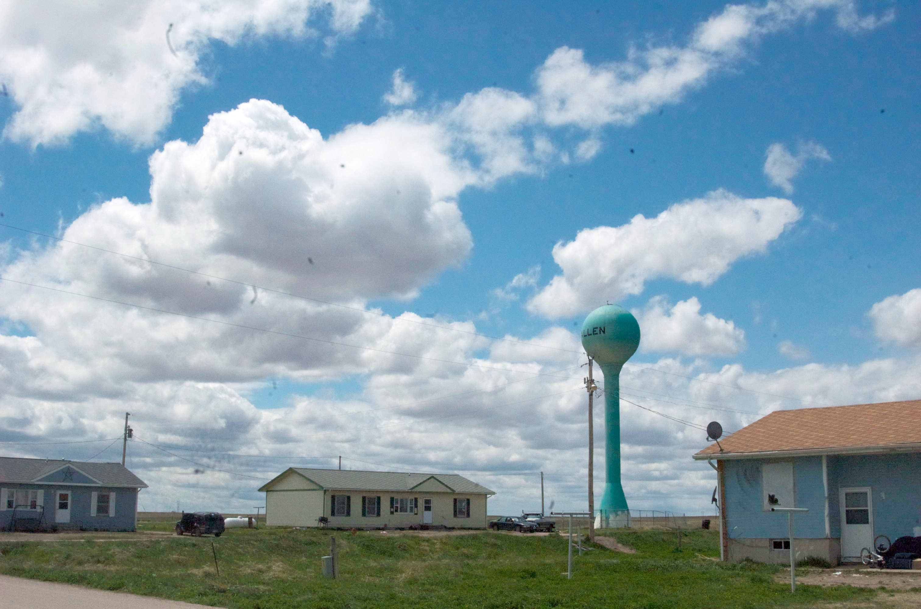 Village of Allen, SD.